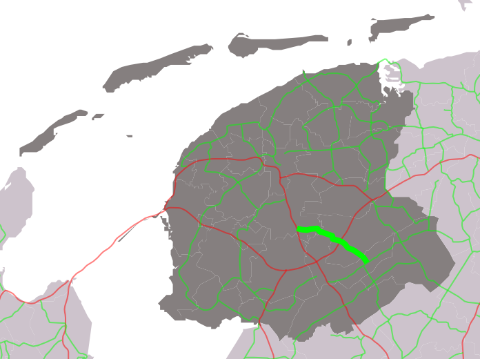 Map of Friesland with Dutch provincial road no. 392